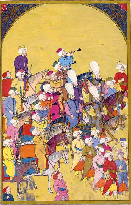 The music band of the Janissaries called mehterhane. They accompanied the company into battle and would play music according to the rhythm of the battle. The music was also used as a way of communication, such as retreat or attack. Ottoman miniature painting, from the "Surname-ı Vehbi" (fol. 171b). Topkapı Sarayı Müzesi, Istanbul.